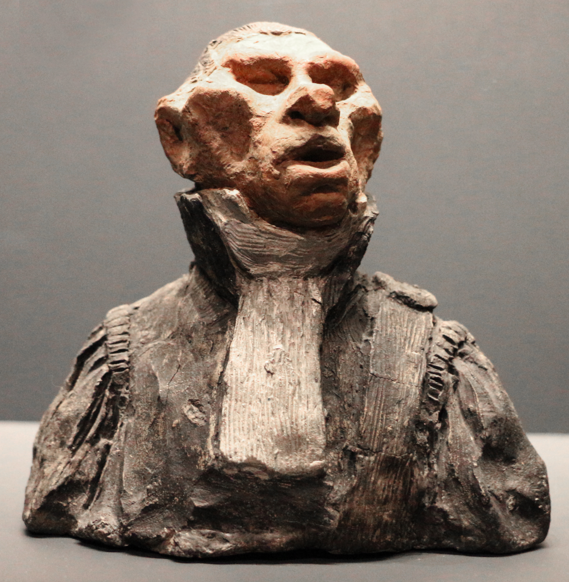 Célébrités du Juste Milieu